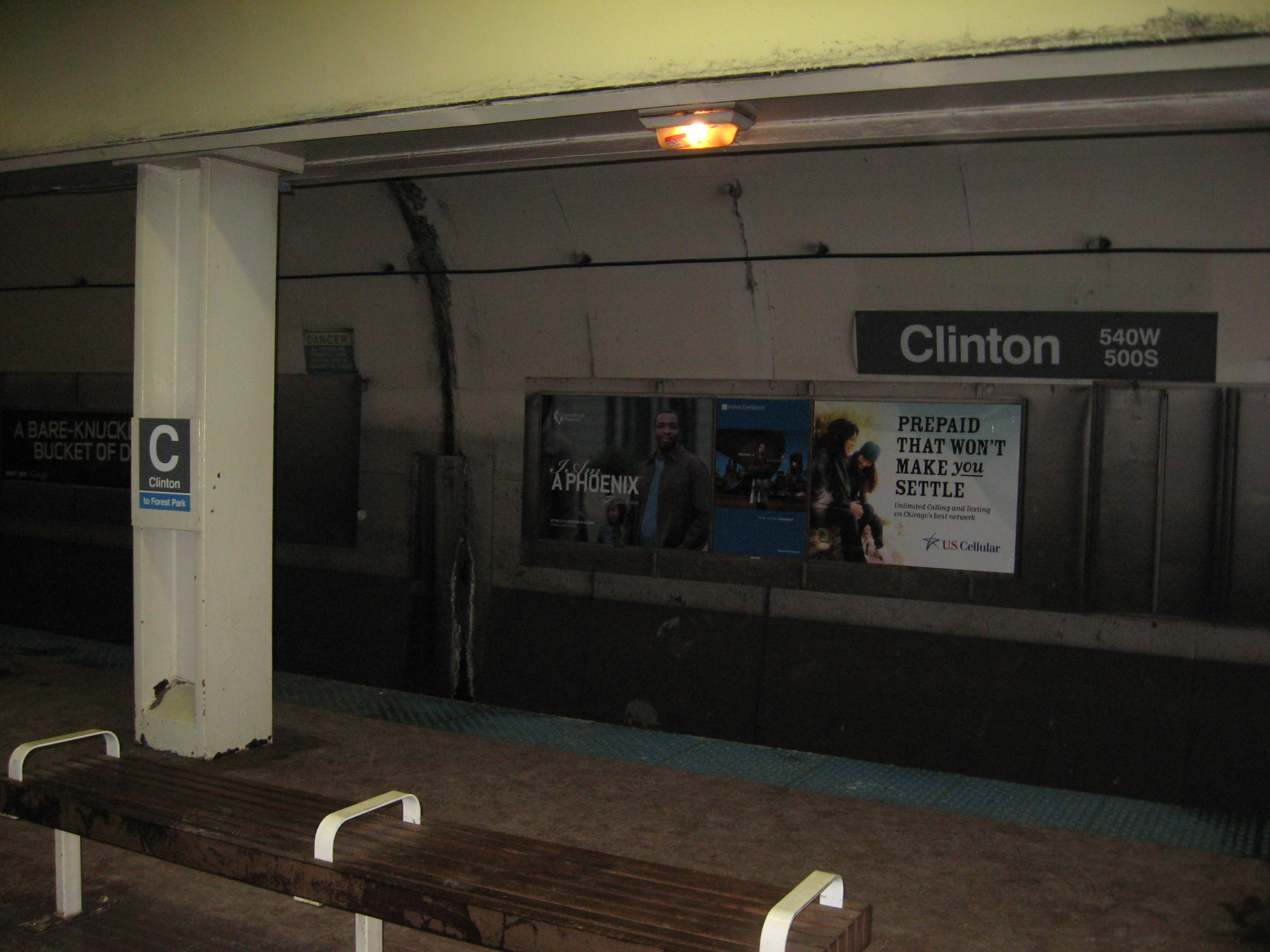 Clinton CTA Blue Line Station